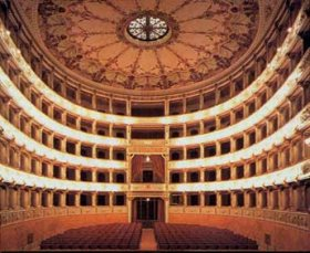 Pisa teatro